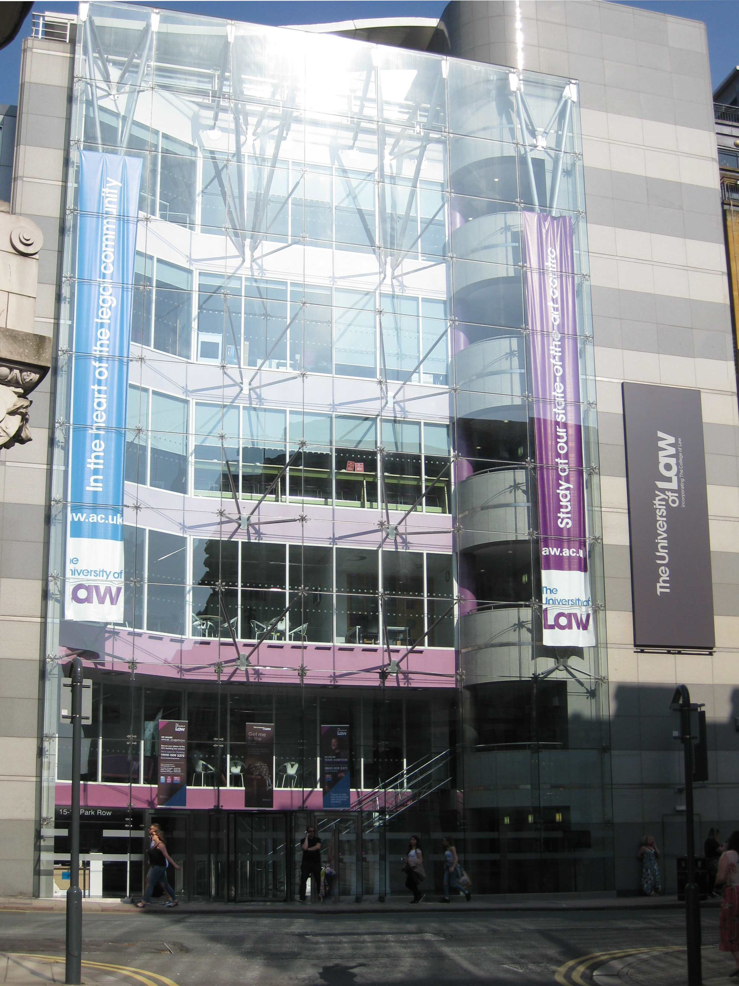 University of Law, 15-16 Park Row, Leeds LS1 5HD